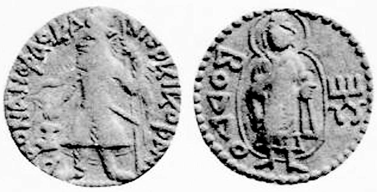 Coin of Kanishka, depicting the Buddha on the back. Has BODDO (i.e. "Buddha") in Greek letters.